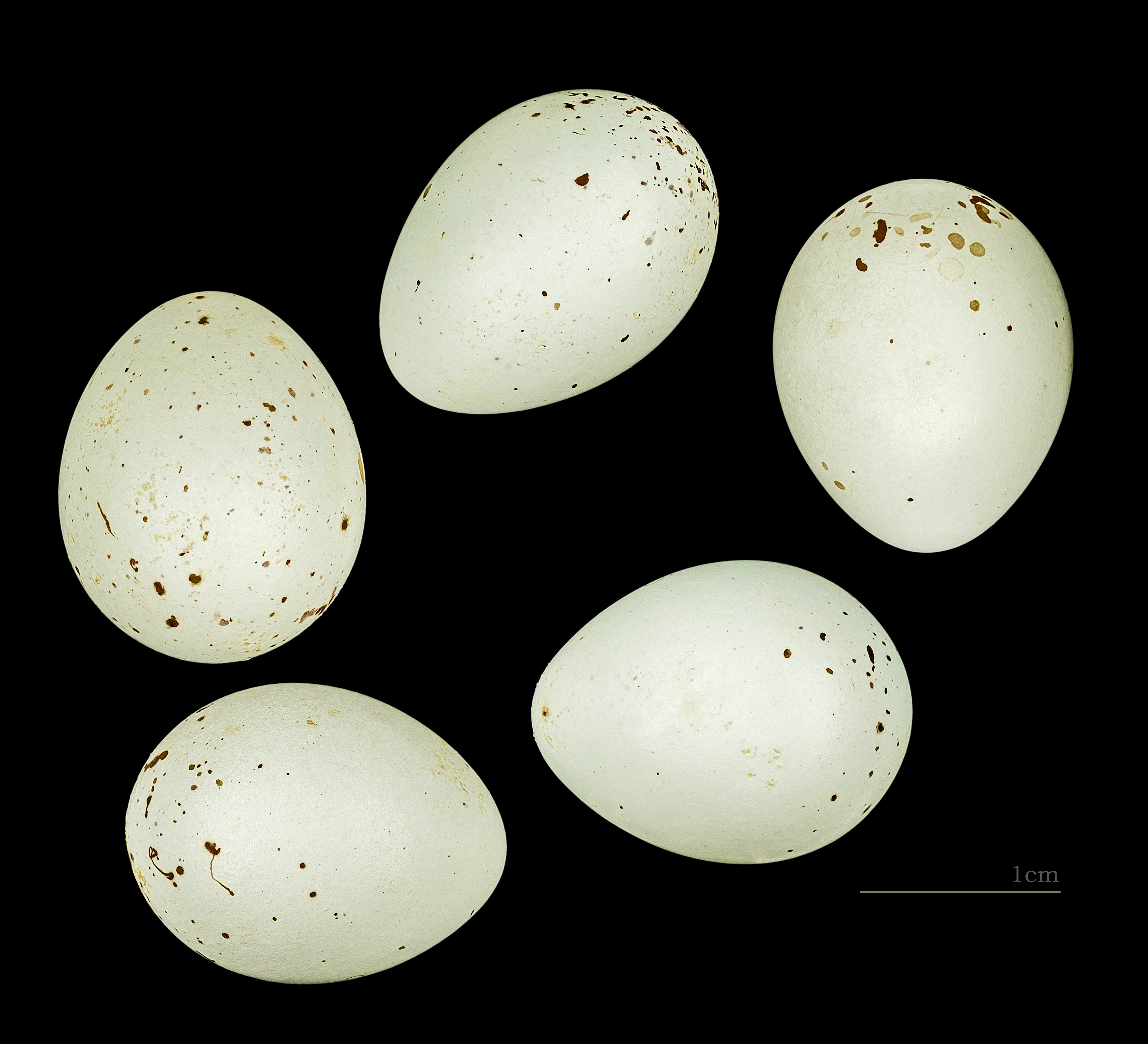 Egg of Trumpeter Finch Collection of Jacques Perrin de Brichambaut.